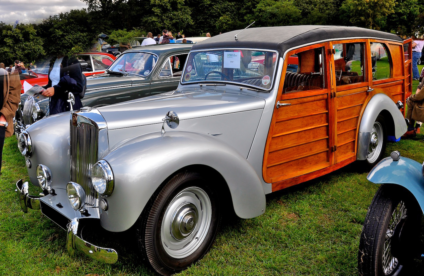 1951 Lea-Francis Fourteen Estate. The bodywork was made by outside firms, this is most likely by APA. Around 1,000 were built between 1946 and 1953.